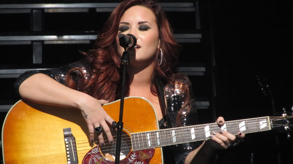 Demi Lovato: (We The Kings) in December 2011.